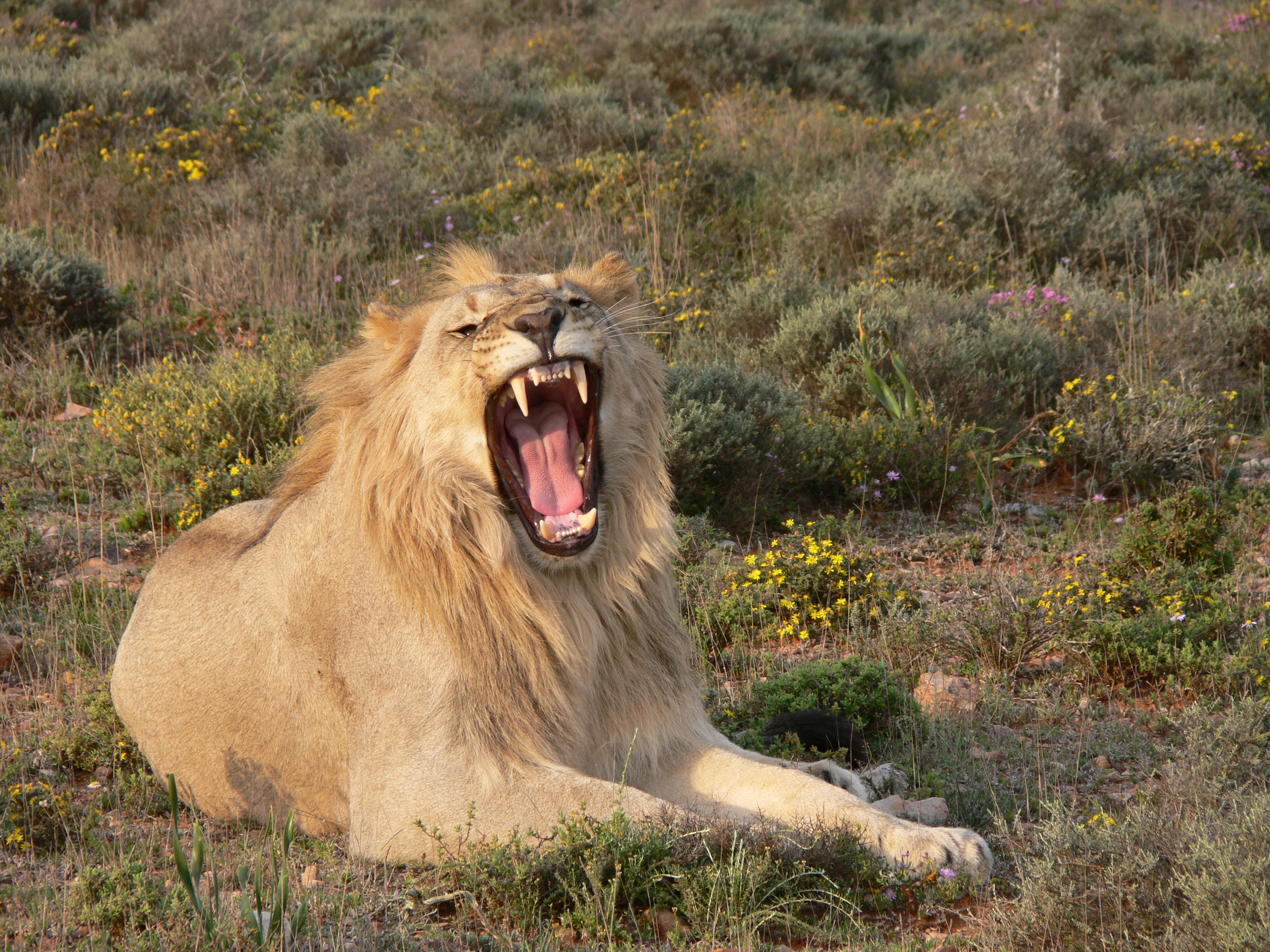 Lion (Panthera leo), Blaauwbosch Game Reserve, Eastern Cape, Southafrica